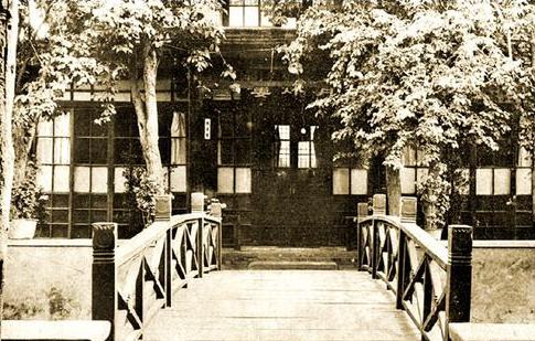 Youqiu building,AUH,China.